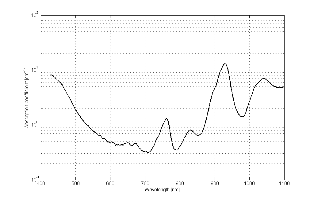 The absorption coefficient spectrum of oil from pig lard